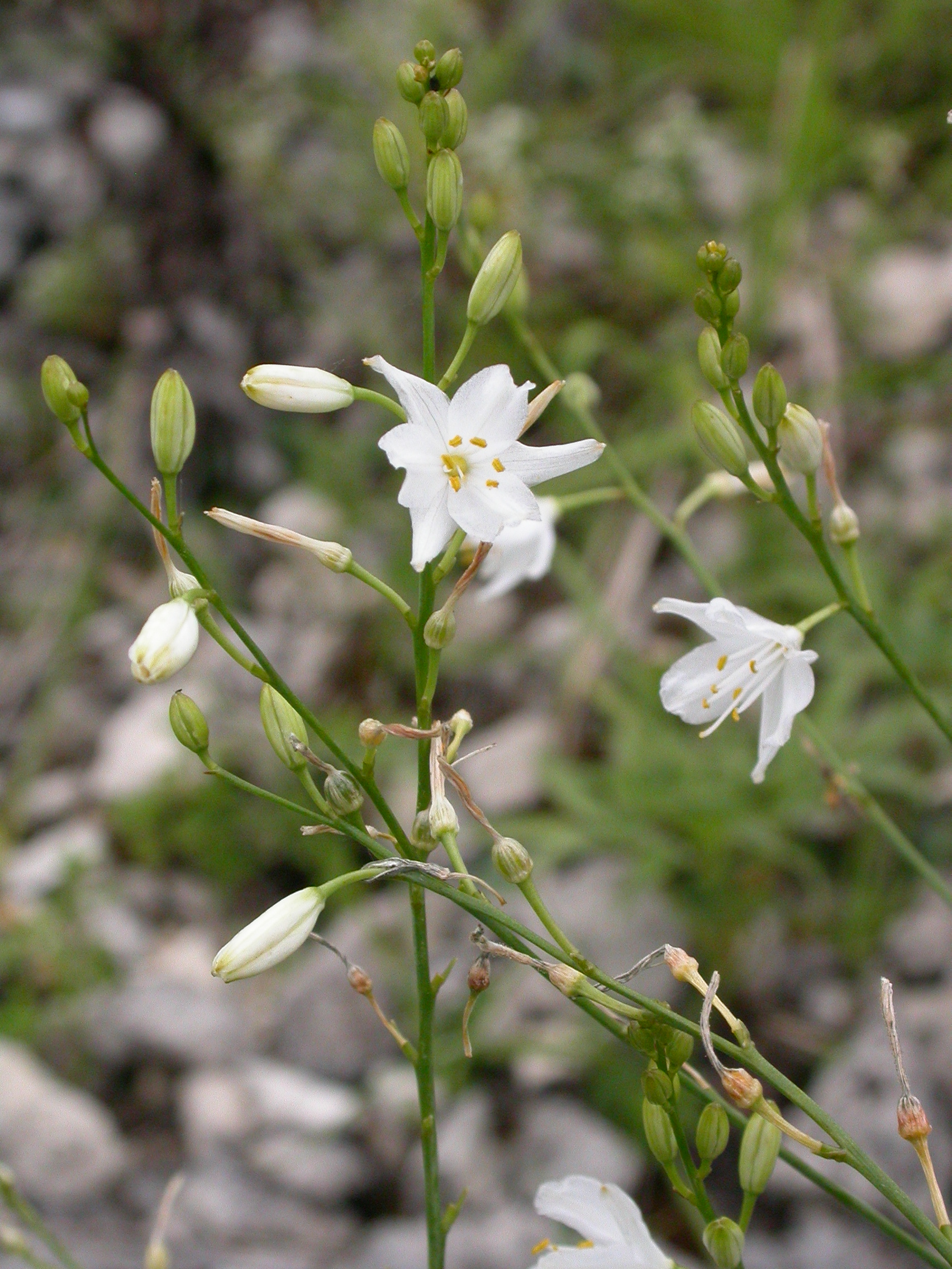 Anthericum ramosum on a grassland in Les-monthairons (Meuse), France